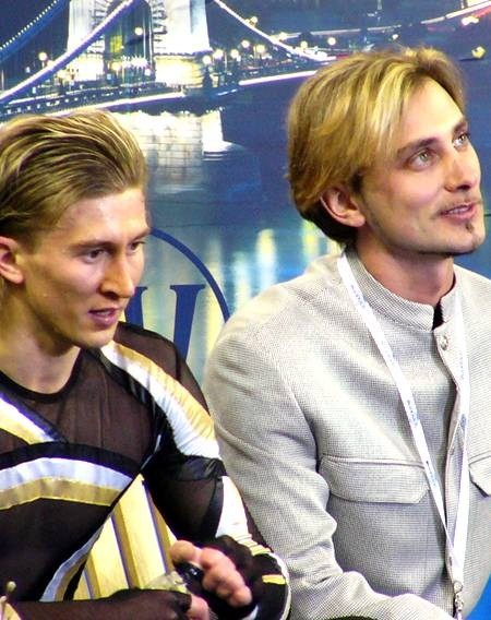 Vitali Danilchenko and Viacheslav Zagorodniuk at the 2004 European Figure Skating Championships